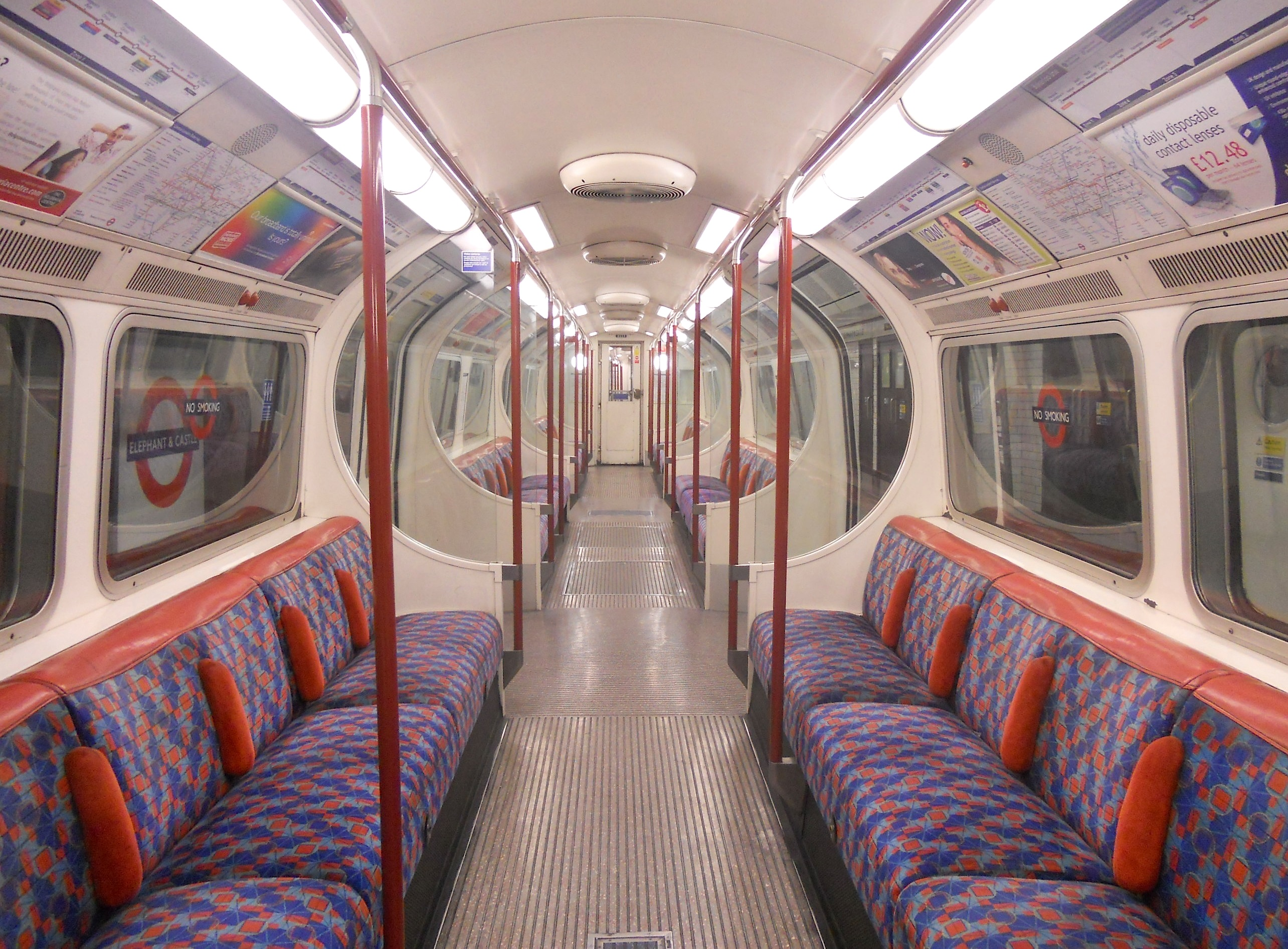 The interior of a London Underground refurbished Bakerloo line 72 Tube Stock